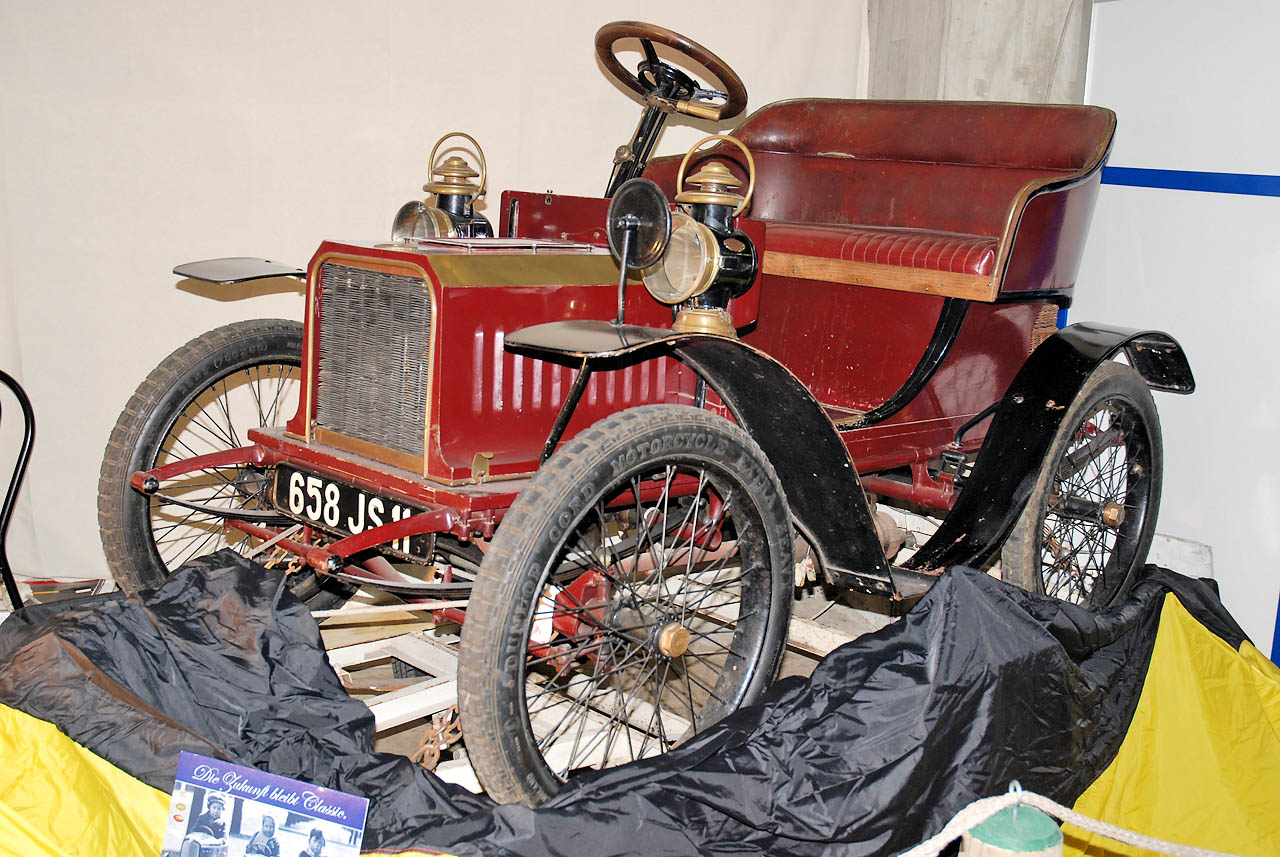 first important model manufactured by this company, made in Belgium by Minerva Motors SA; front-side view